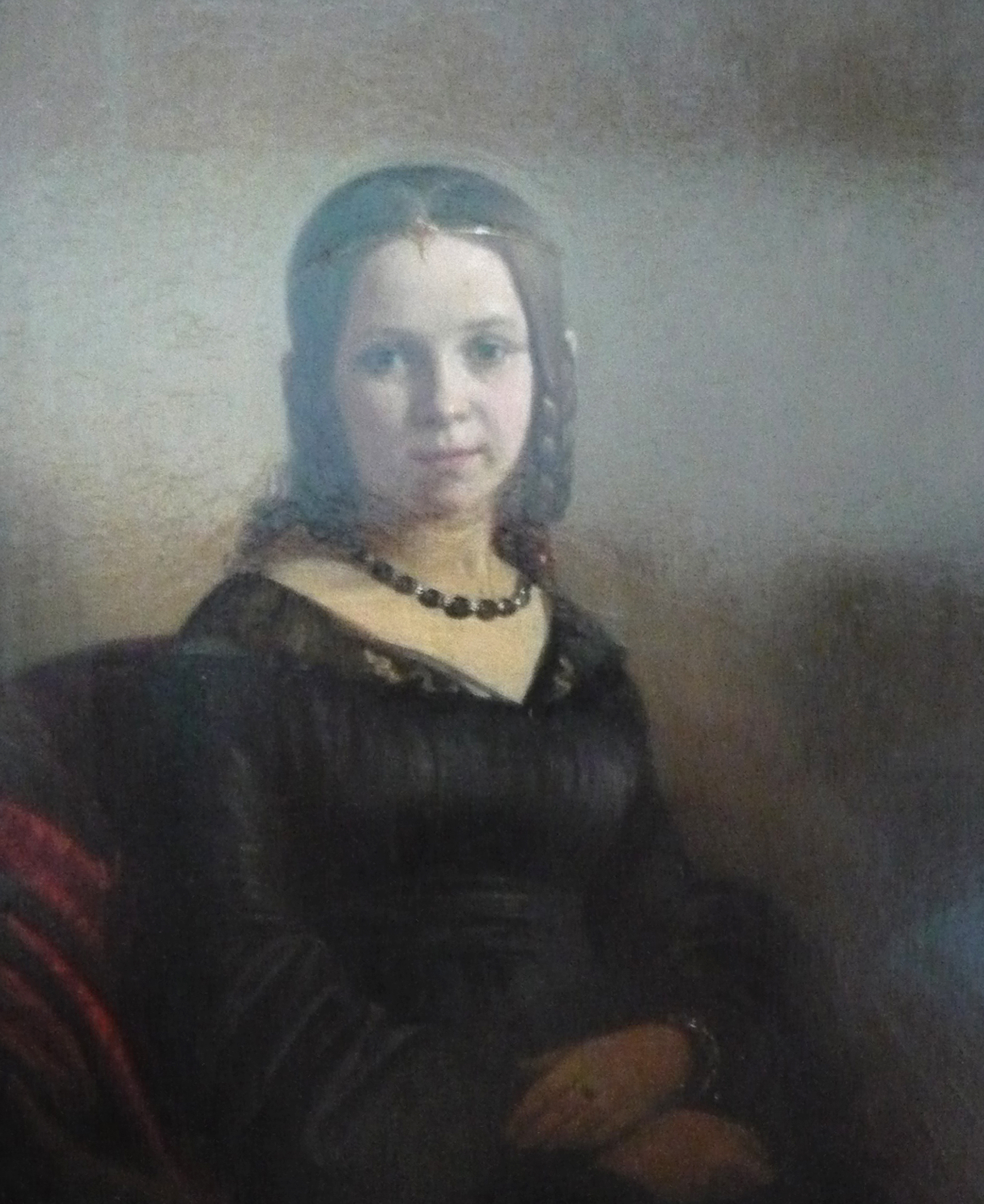 Emilie Preyer, born Lachenwitz, was the wife of the painter Johann Wilhelm Preyer (1803-1889)